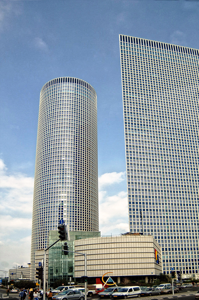 Azrieli Circular Tower